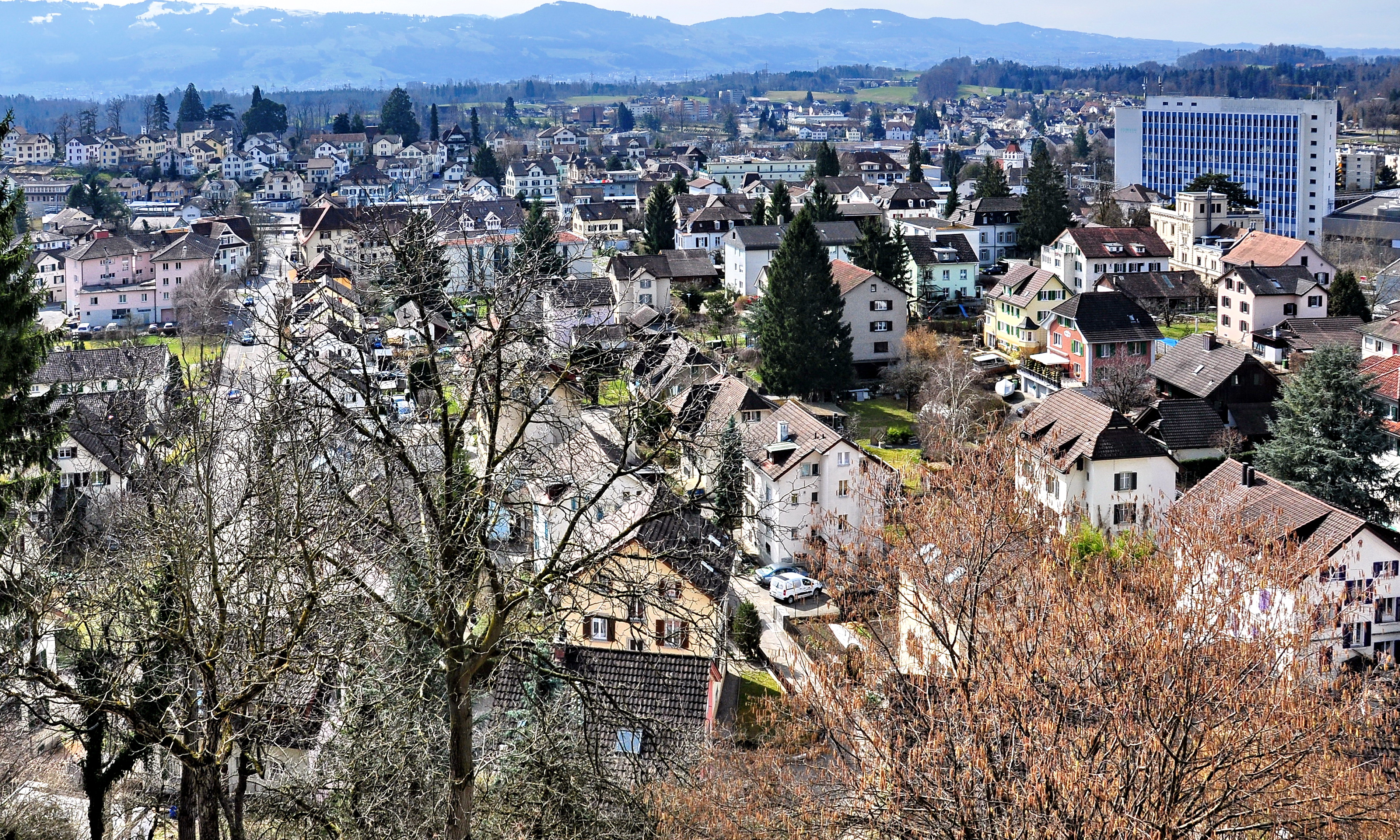 Rüti (ZH) in Switzerland as seen from Haltberg, Joweid to the right.